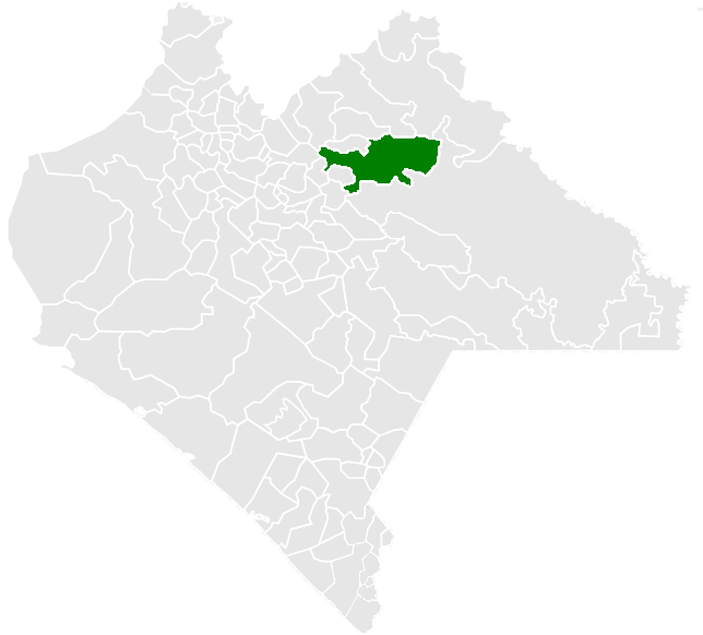 Map of the Municipalty of Chilón in the State of Chiapas, México.